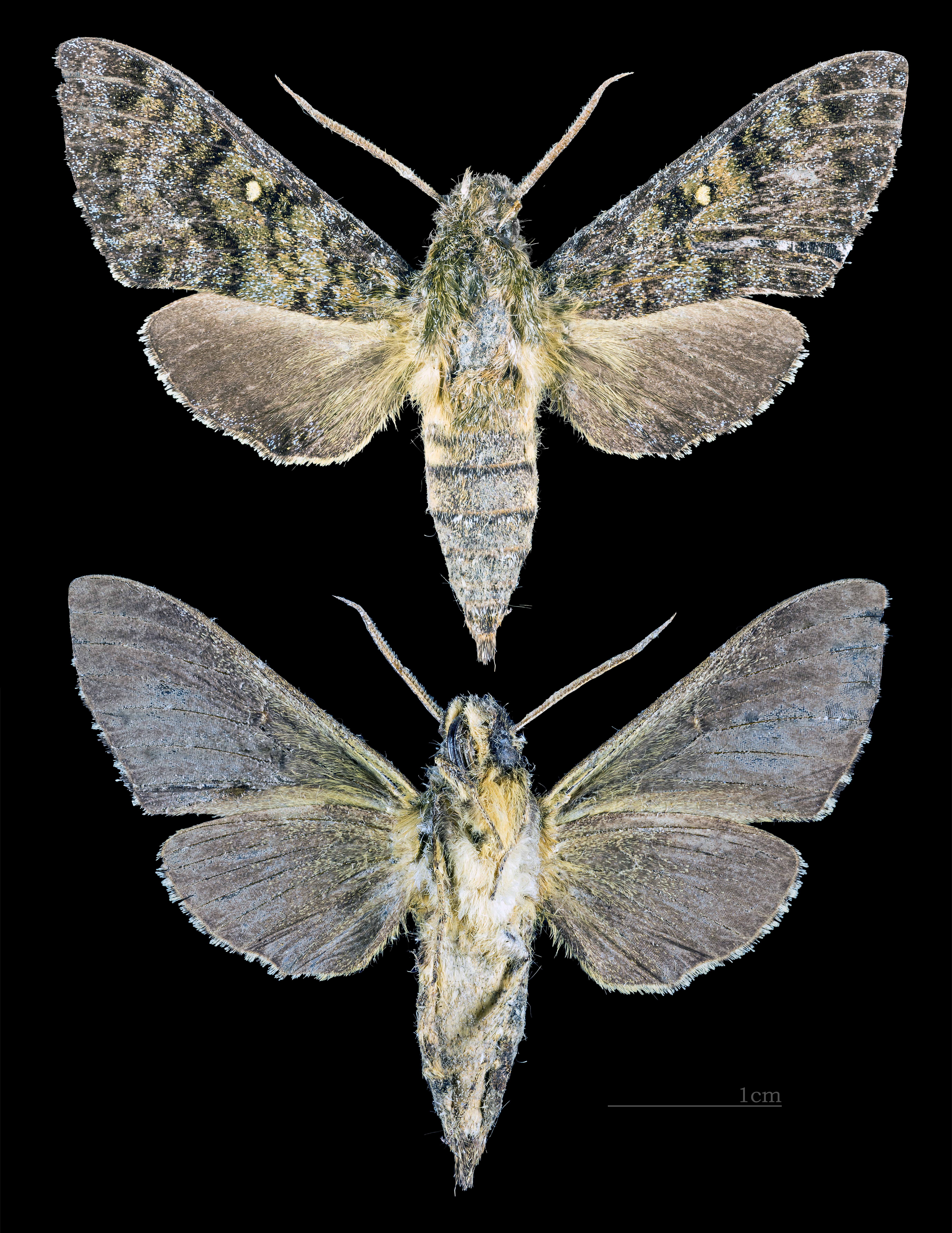 Pseudodolbina fo - Two views of same specimen Collection of the Mathematician Laurent Schwartz